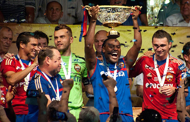 Vágner Love celebrating Russian Super Cup 2013 victory